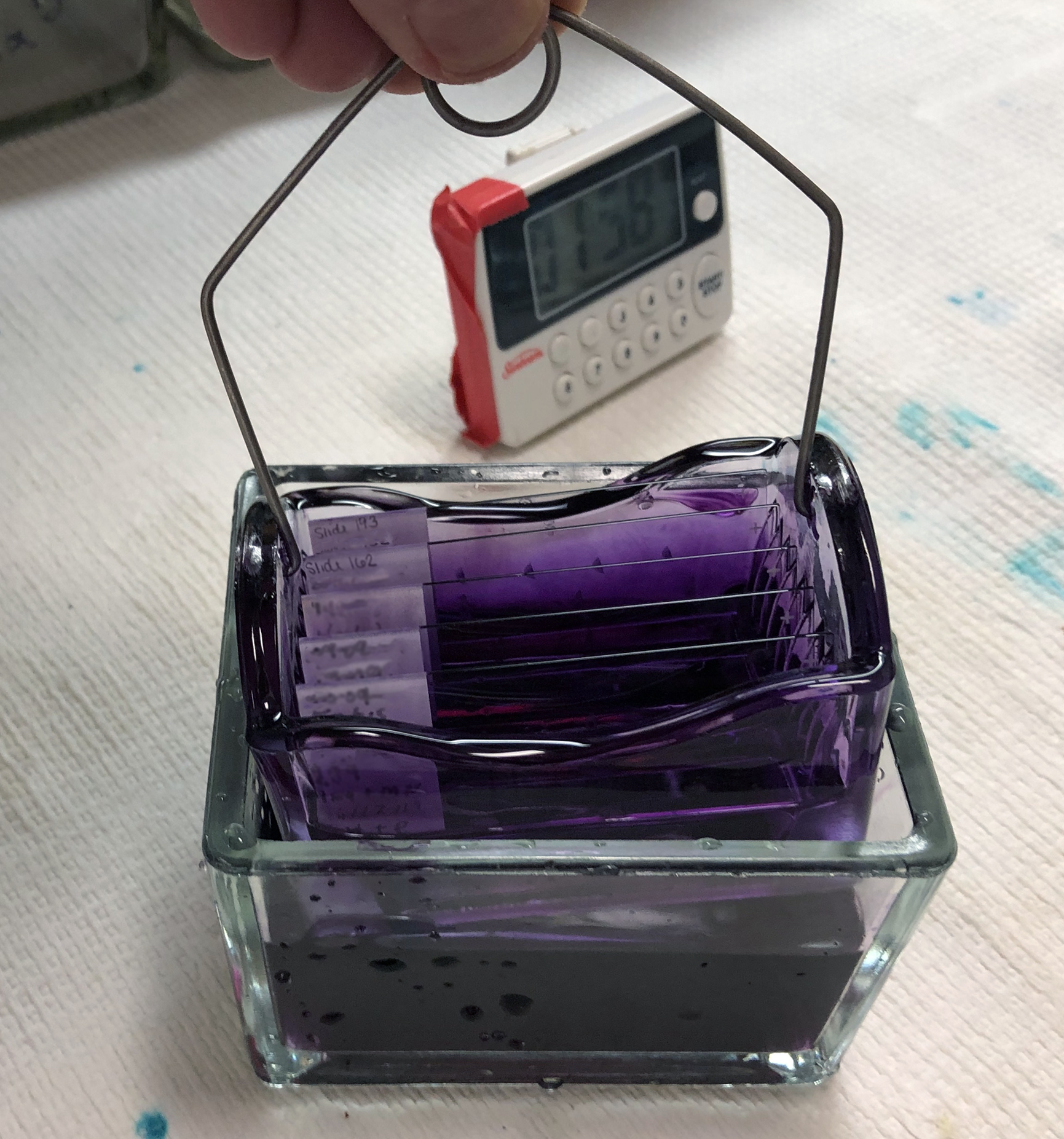 Batch of slides being removed from a bath of haematoxylin stain